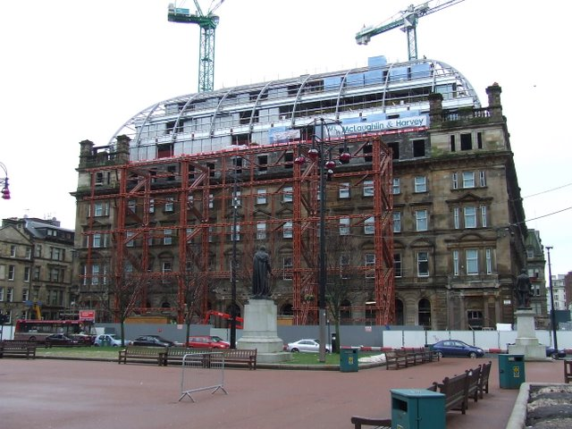 Former GPO building on George Square. The wraps are off, but there is still much work to be done. The building has had various wrappers over the years 414269 672686 573820.